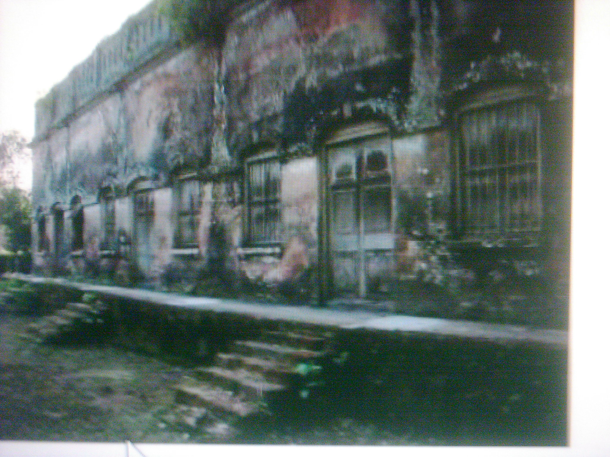 অন্দরমহল